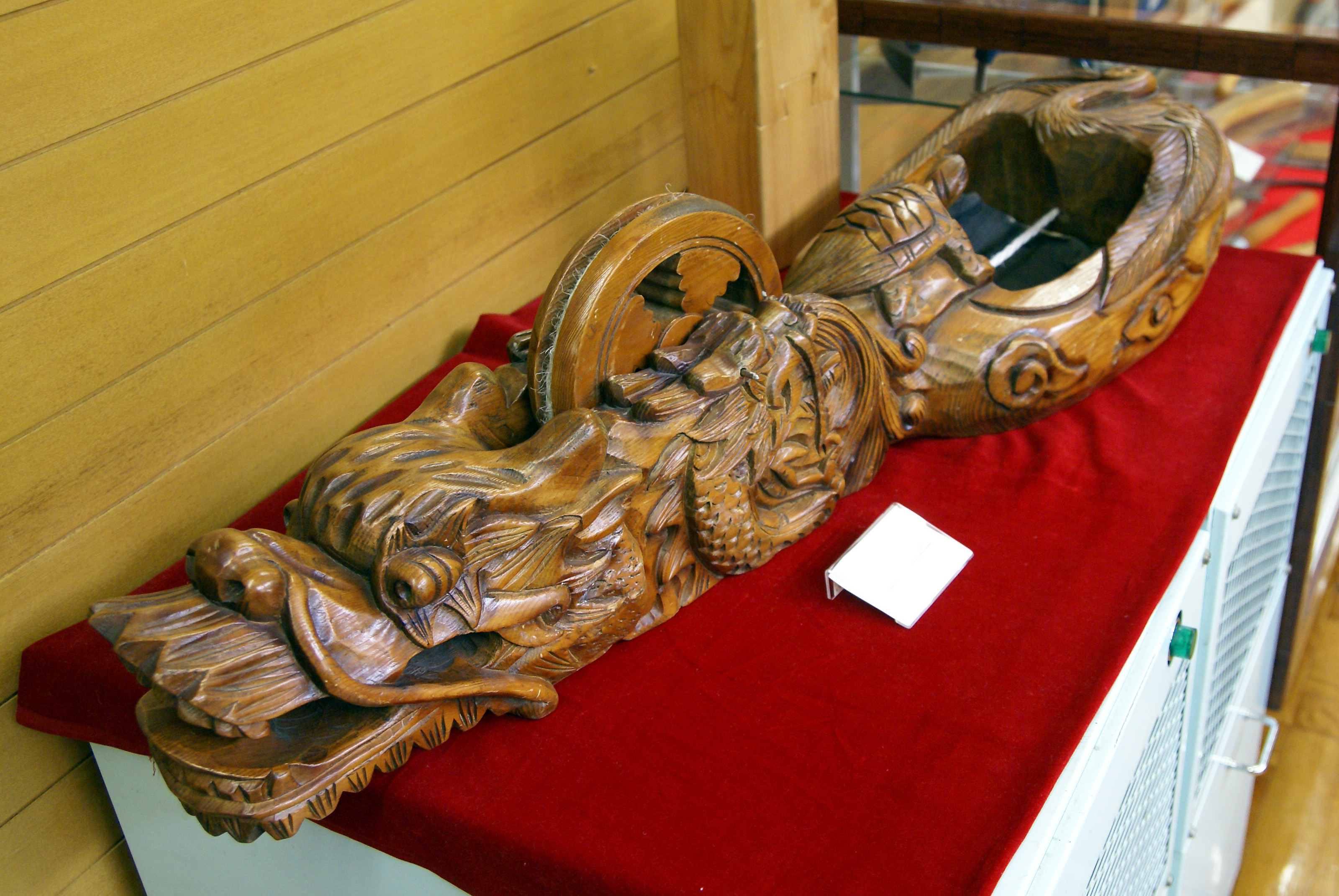 Sumitsubo at Miki City Hardware Museum in Miki, Hyogo prefecture, Japan